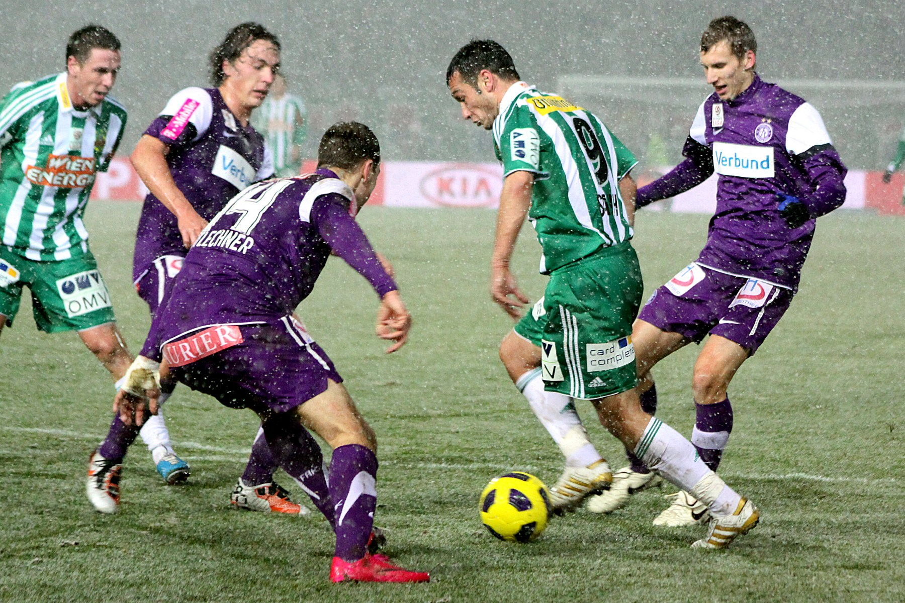 Derby of Vienna - FK Austria Wien vs SK Rapid Wien 0:1 – Hamdi Salihi (green-white shirt) scored in this match the 500st derby-goal for SK Rapid Wien.